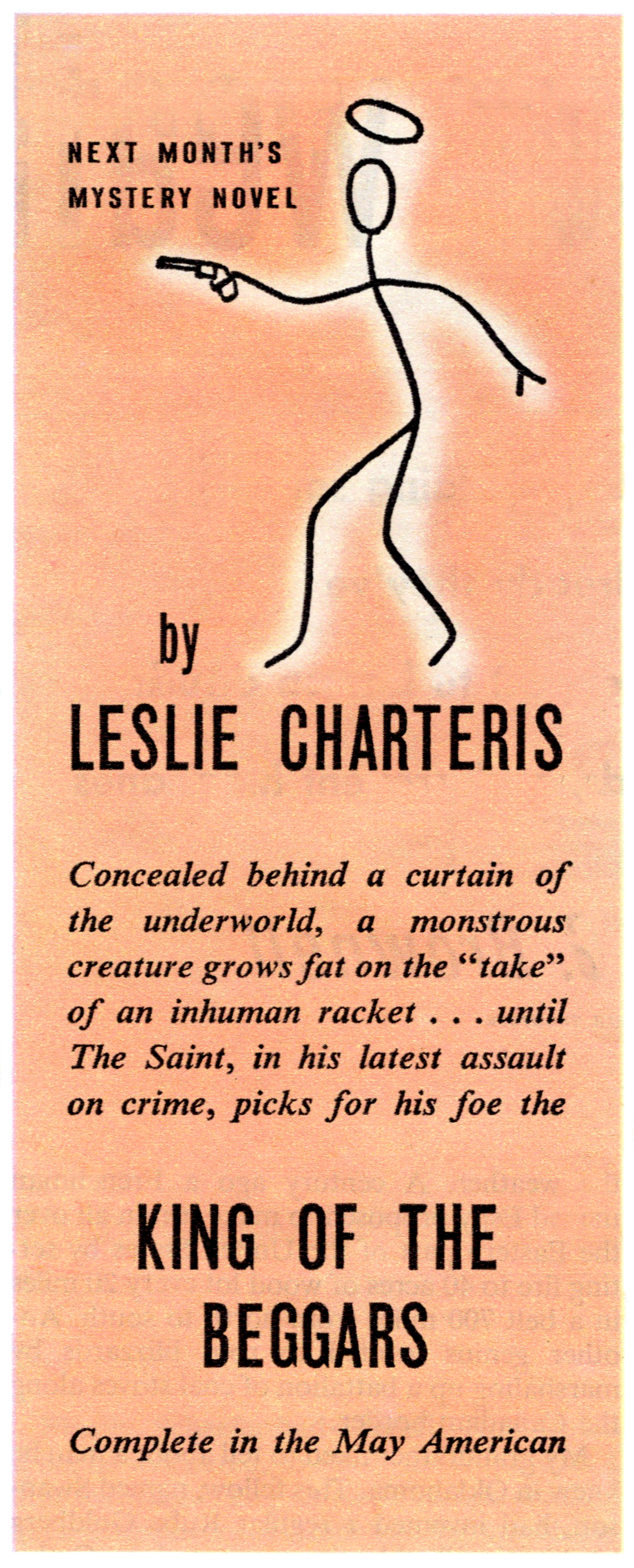 Promotional teaser for "The King of the Beggars", a Simon Templar story by Leslie Charteris that first appeared in The American Magazine in May 1947